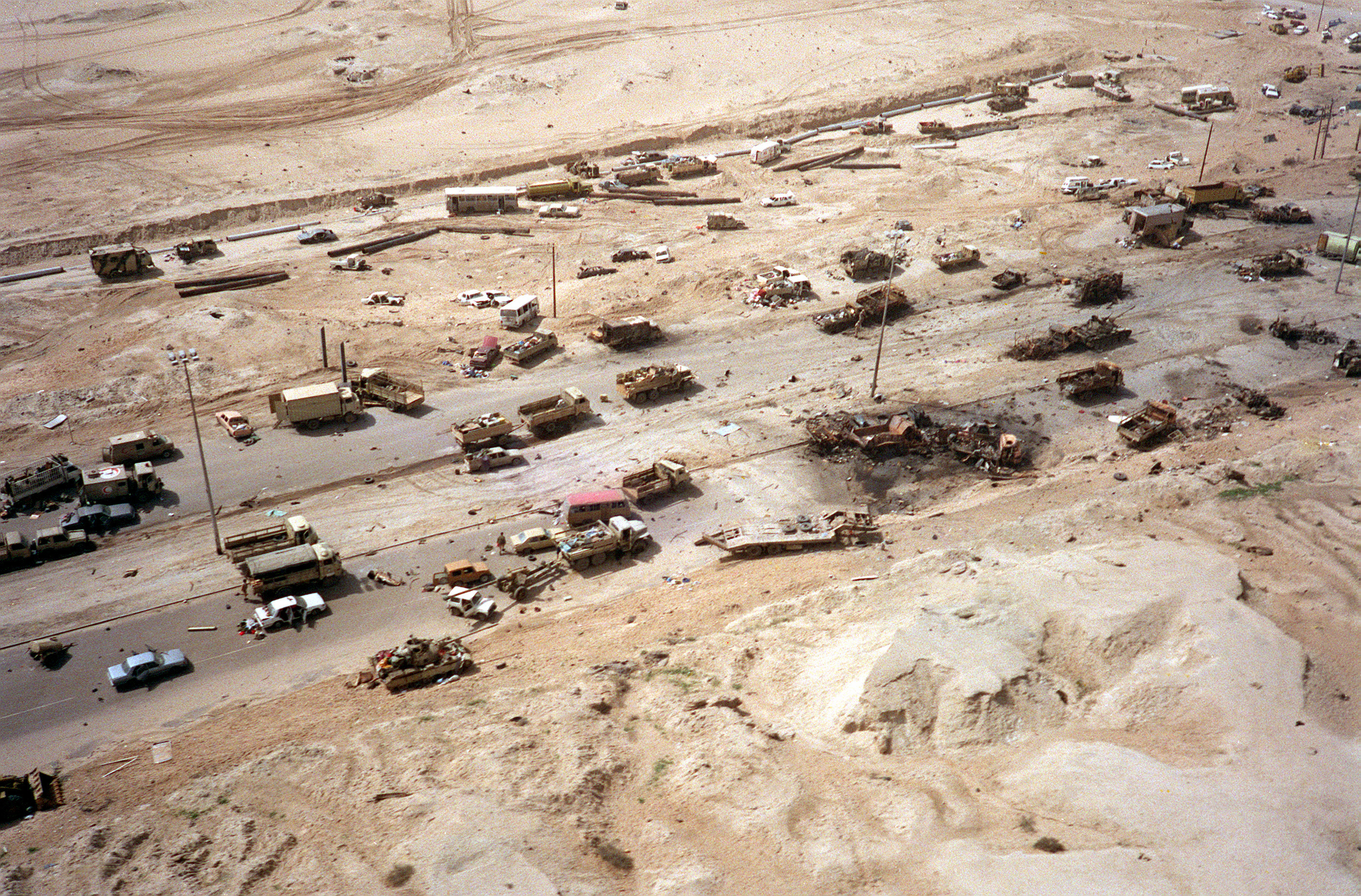 Civilian and Iraqi military vehicles litter a section of the Kuwait City Highway attacked by Allied aircraft during Operation Desert Storm.